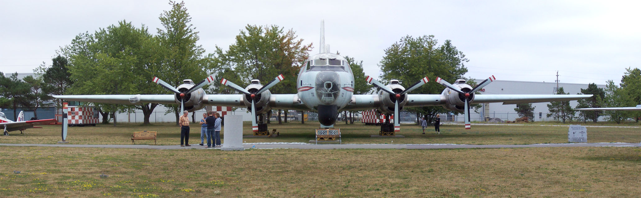 Stitched panorama of a CP-107 at the Canadian Air Force Museum in Trenton, Ontario.